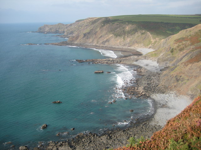 Stanbury Mouth and the North Cornwall coast viewed from Lower Sharpnose Point.